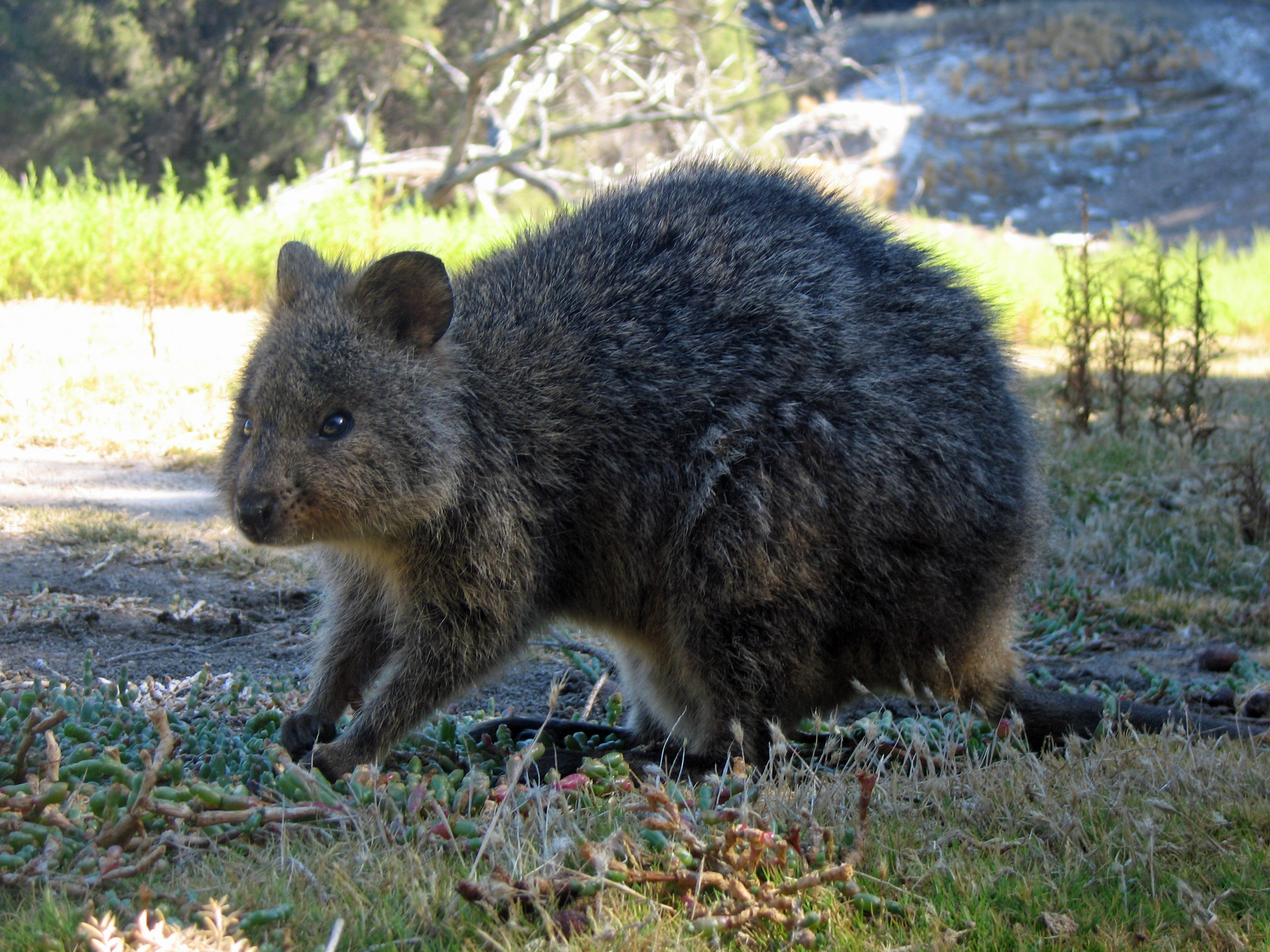 Setonix brachyurus